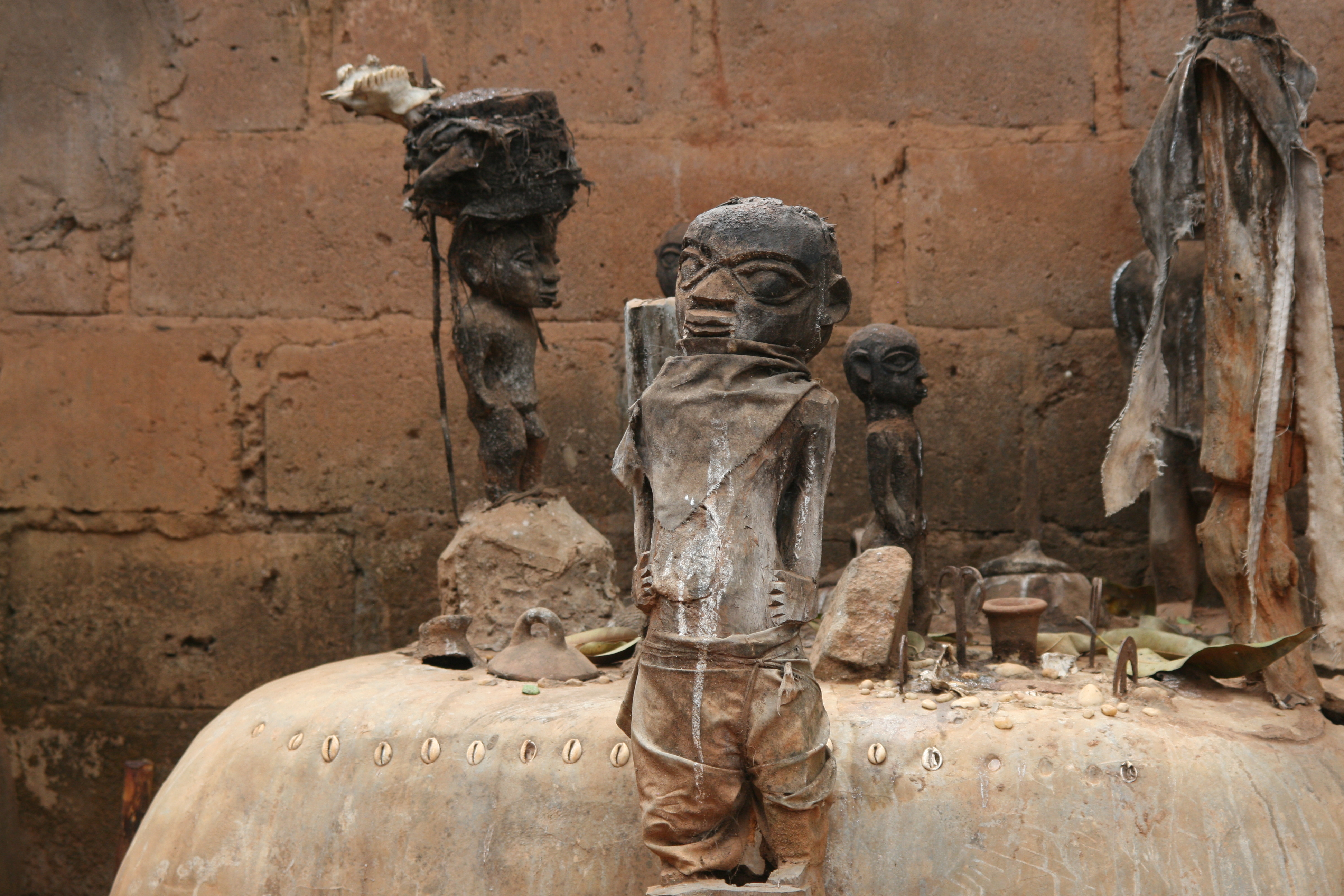 Voodoo altar with several fetishes, picture made in march 2008 in Abomey, Benin.